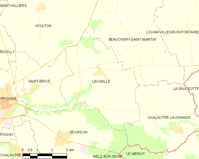 Map of French municipality Léchelle